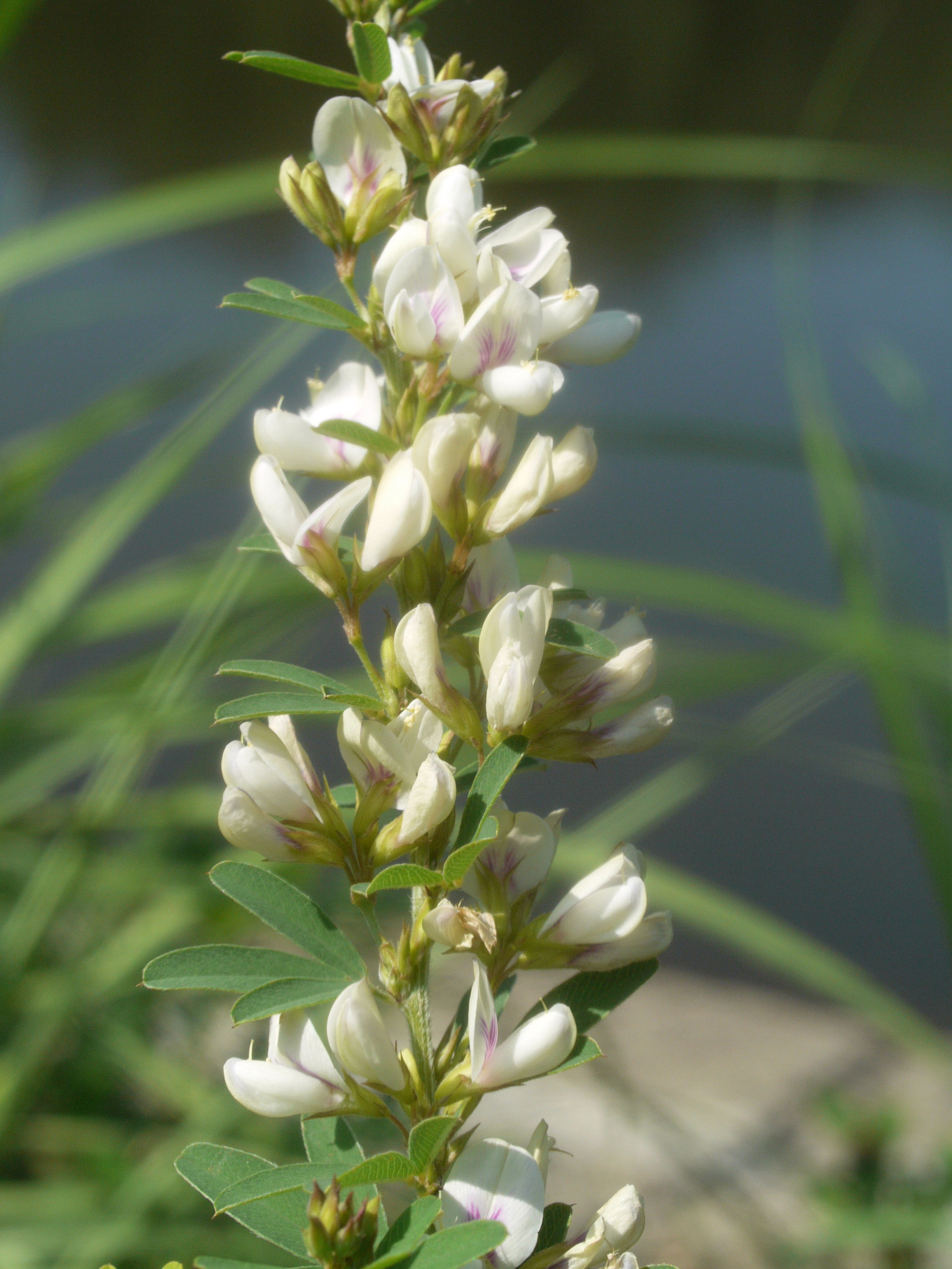 Lespedeza_juncea_var._subsessilis(Fabaceae)